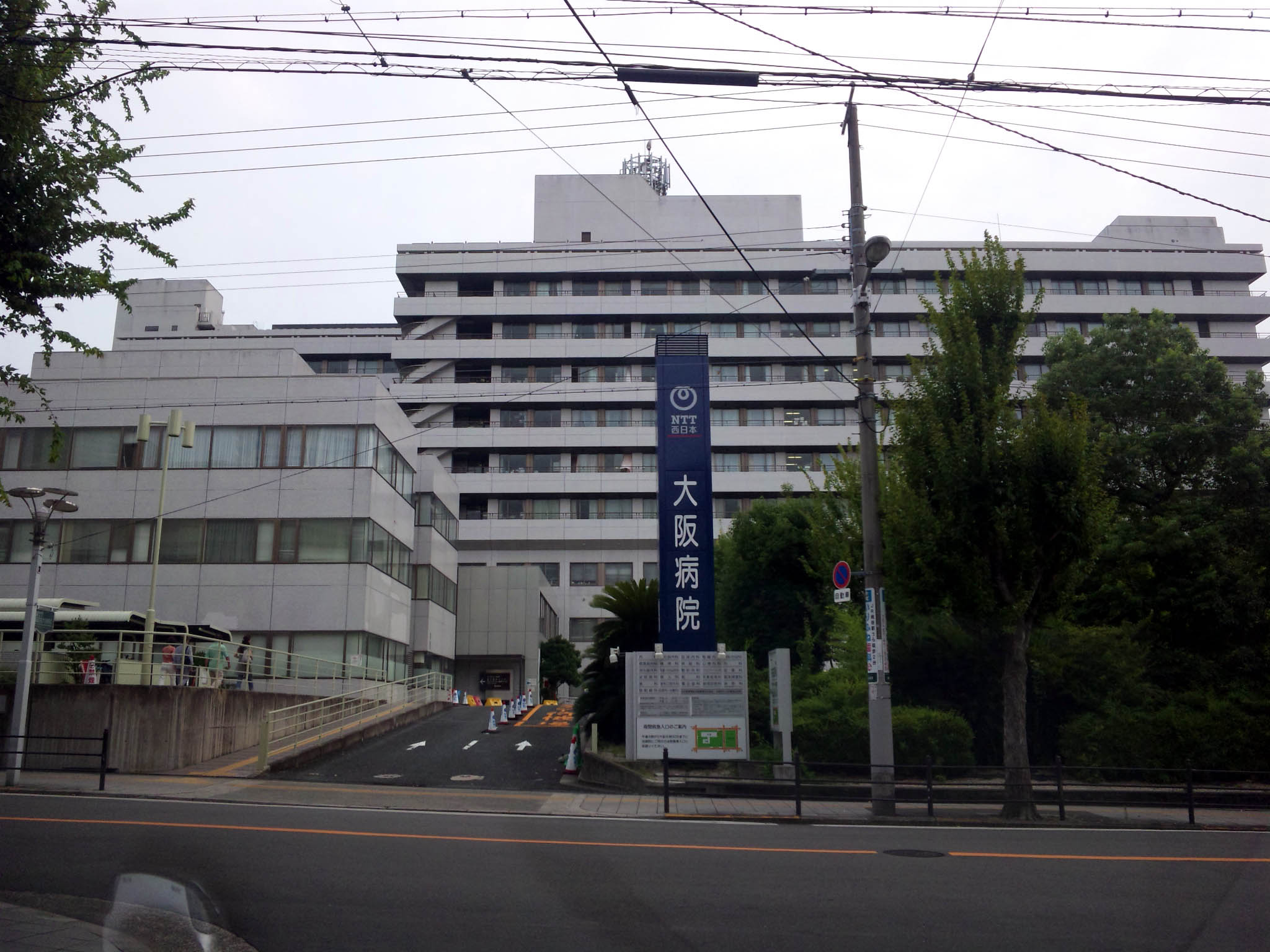 NTT WEST OOSAKA Hospital OSAKA Tennouji